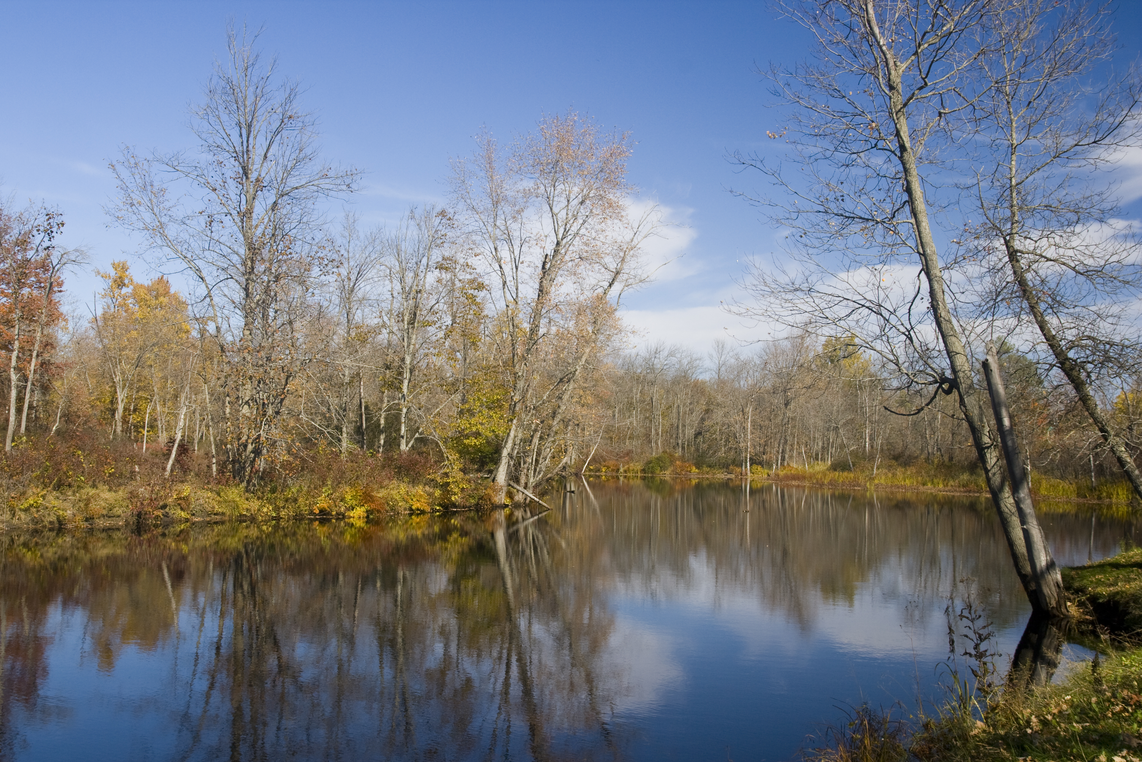 The Skootamatta River at the picnic area at Highway 7 & Highway 37. I went for a nice canoe trip for a couple hours last weekend to the High Falls a kilometer or so upstream. Not the best timing - I'd missed most of the fall colours in the area, but still very pretty.